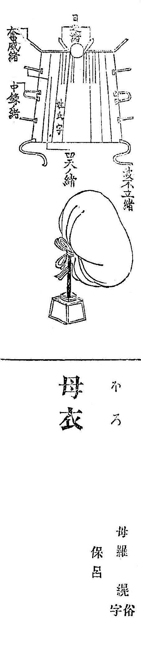 Horo. A kind of Protector for Japanese Samurai in the middle age. 騎馬武者が用いた防具。母衣（ほろ）。